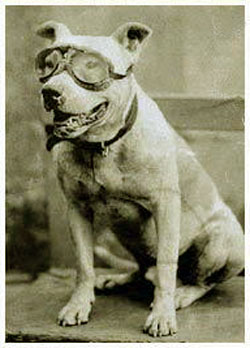 Bud the transcontinental dog. The famous Pit Bull that was bought by Horatio Nelson Jackson in Caldwell, Idaho during his famous cross-country ride.